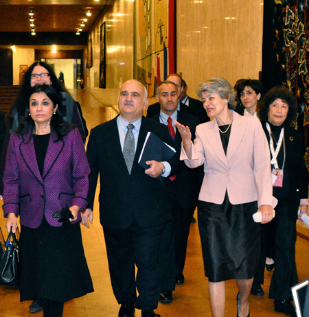 An example of science diplomacy, the Malta Conferences bring together scientists from all over the Middle East for presentations and discussions of mutual scientific and technical interest, plus close interactions with several Nobel laureates. Shown here are His Royal Highness Prince Hassan of Jordan (center-left), Irina Bokova (center-right, Director-General of UNESCO), and Dr. Zafra M. Lerman (right, President of the Malta Conferences Foundation), on their way to the opening of the Malta V Conference at UNESCO's headquarters in Paris, France. (December 2011)